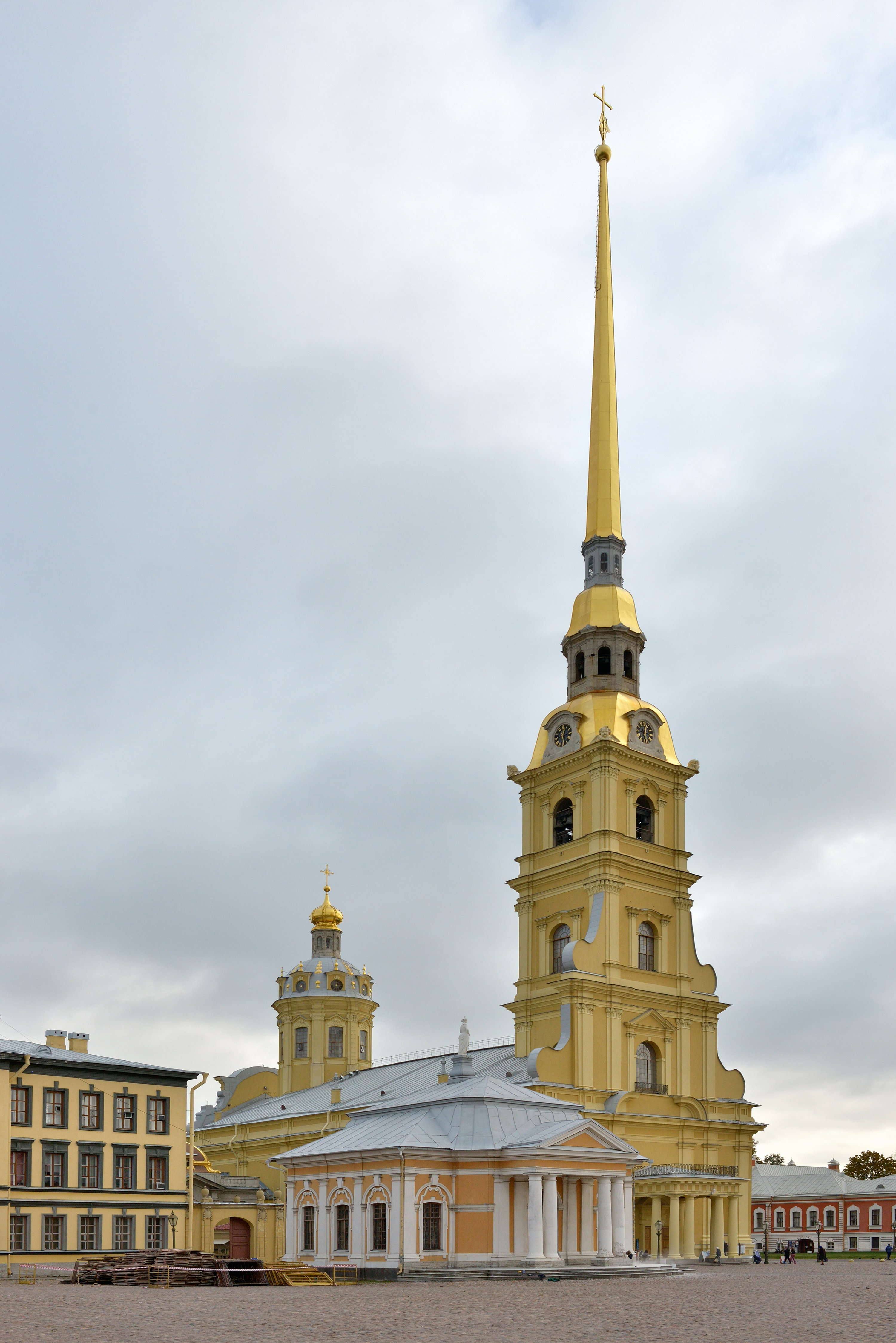 The boathouse of Peter the Great and the Saint Peter and Paul Cathedral in Saint Petersburg 1905.